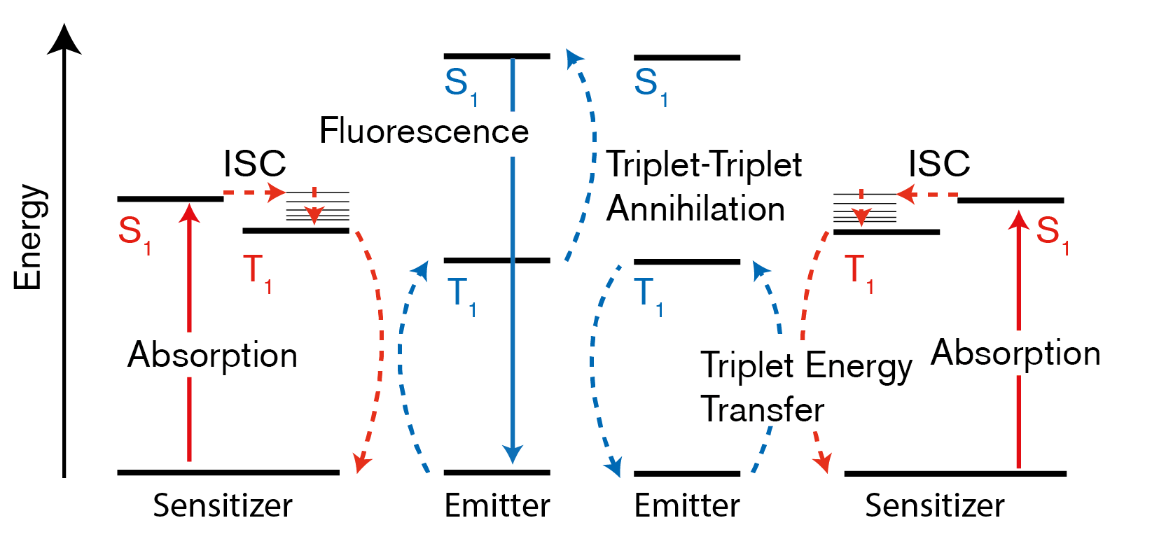 Jablonski diagram describing photon upconversion through triplet-triplet annihilation.